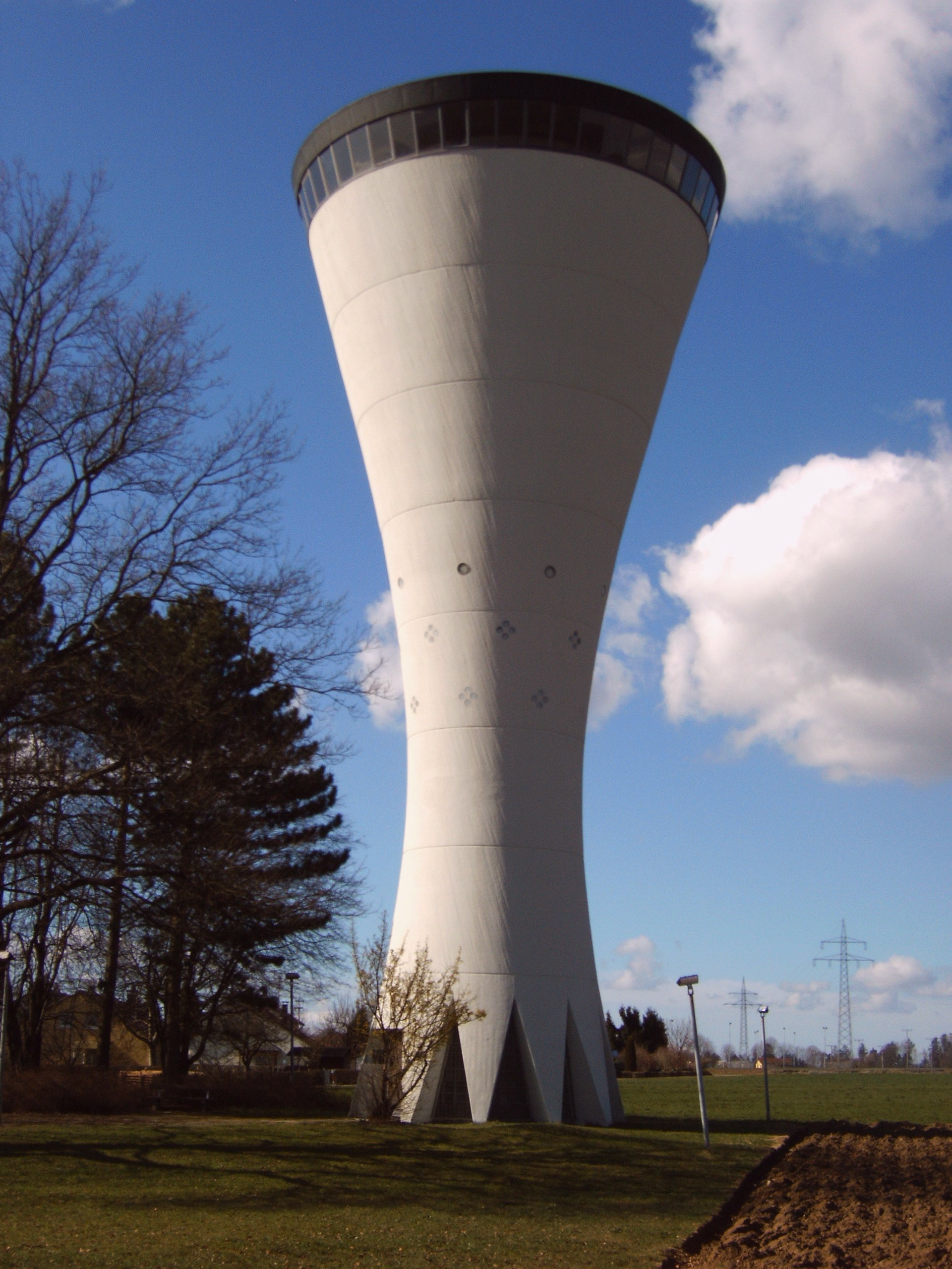 Water tower in Pfahlbronn, Alfdorf, Germany